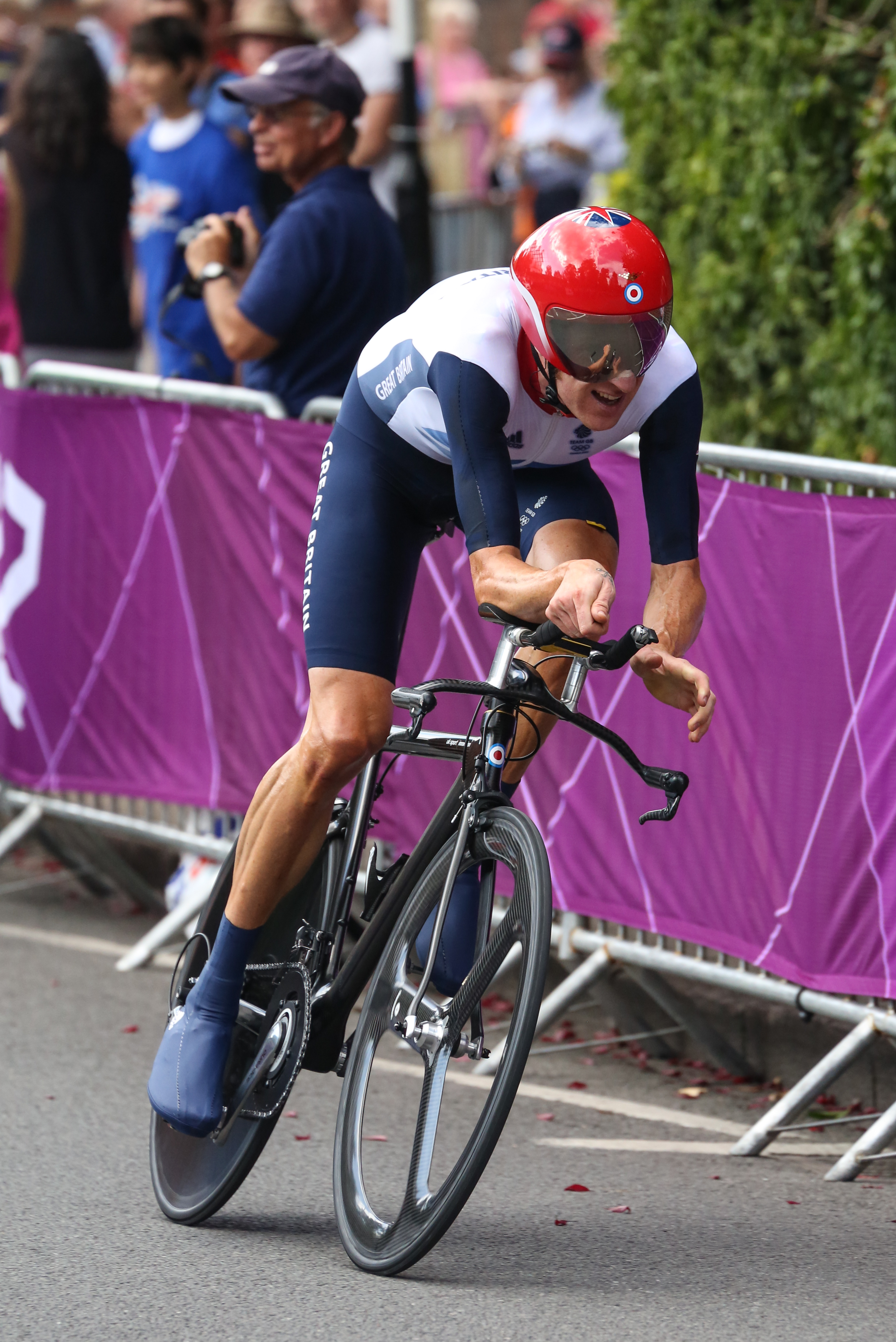 Bradley Wiggins competing in the London 2012 Men's Olympic Time Trial.